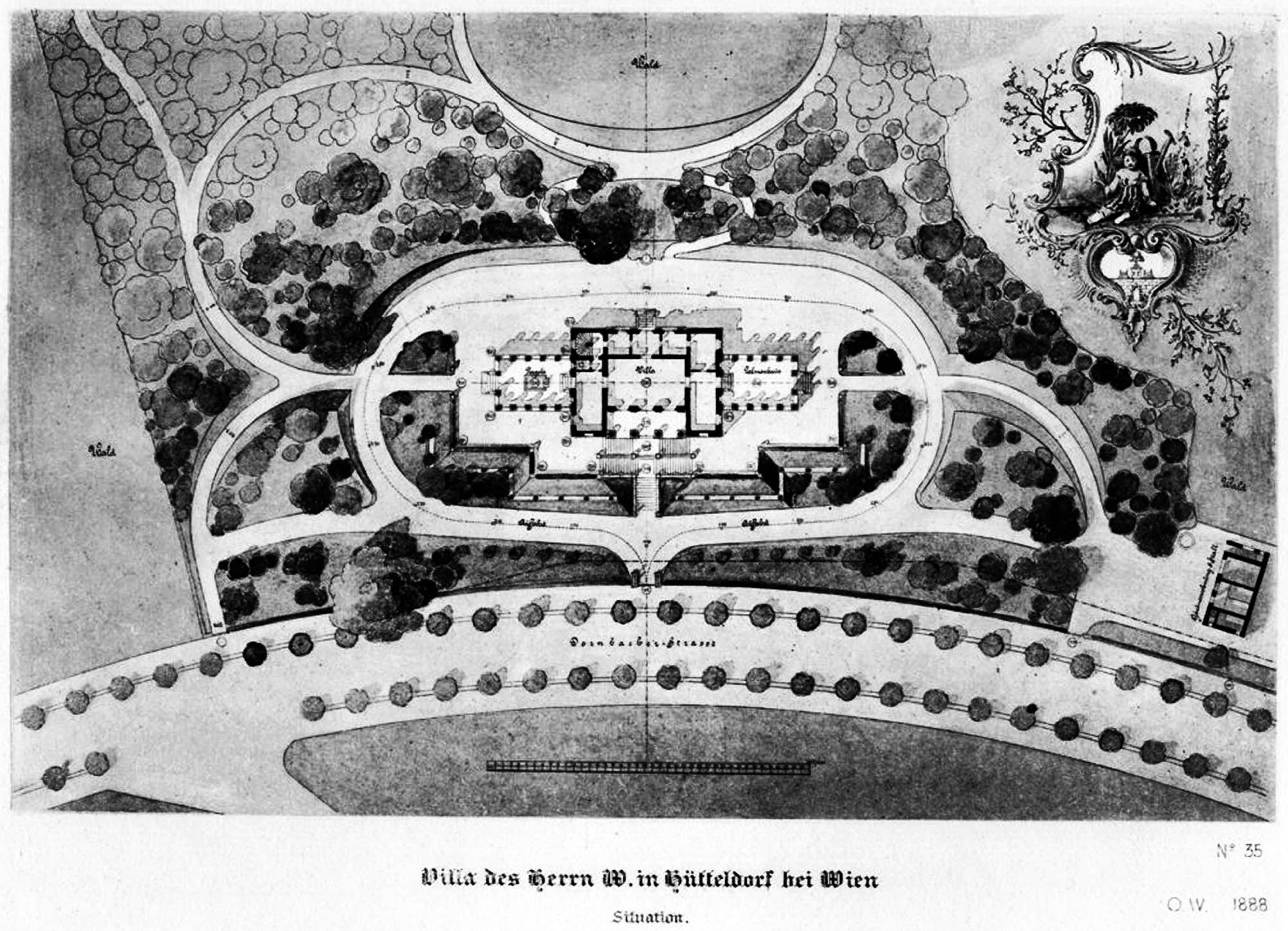 Villa Wagner I (project, plan)